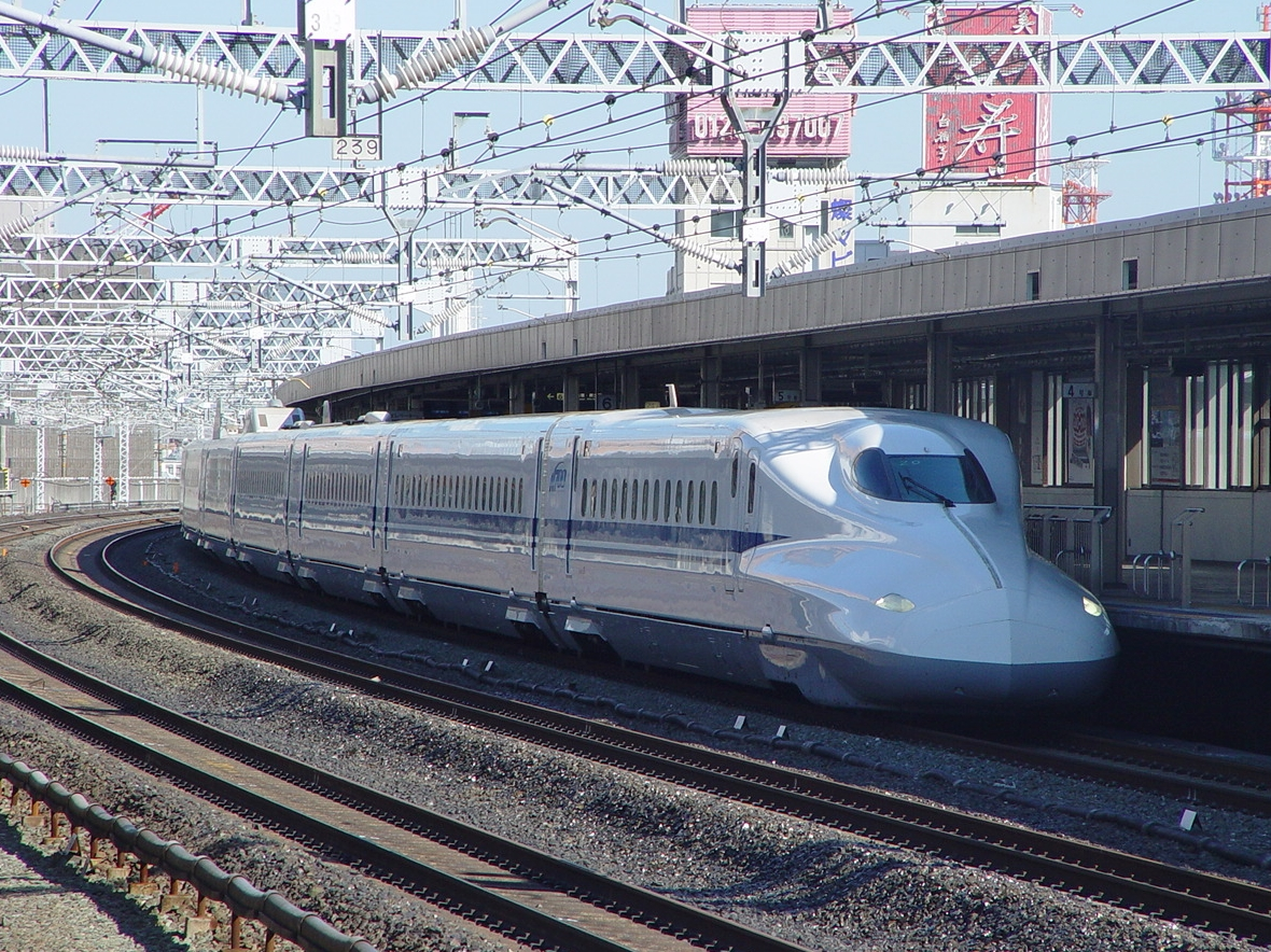 N700 series shinkansen prototype set Z0 at Hamamatsu Station on a test run